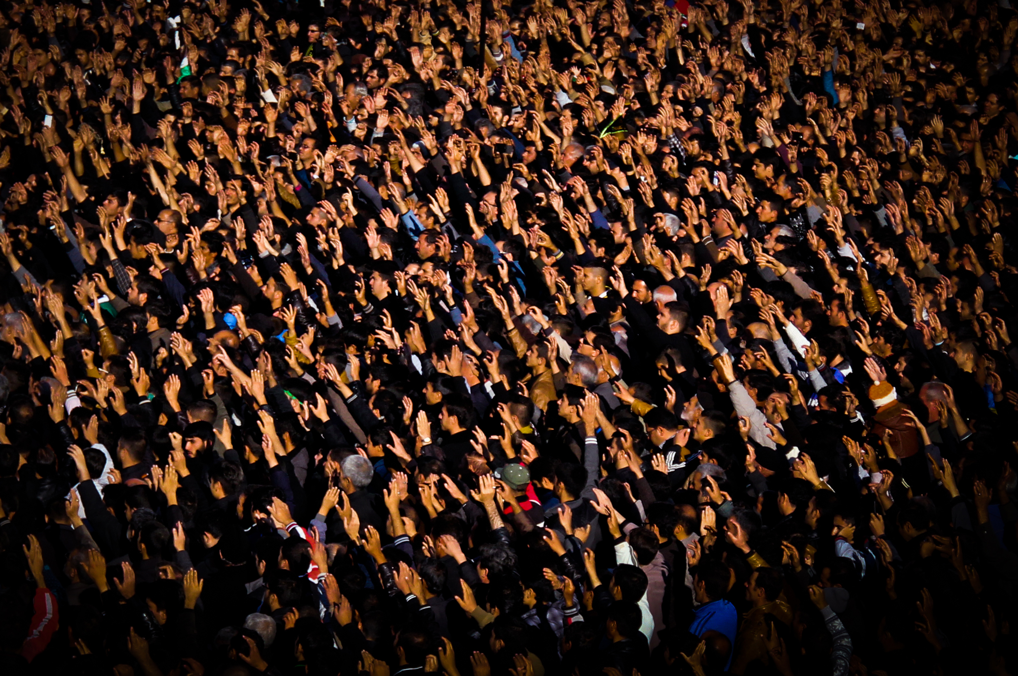 Mourning of Muharram is held in majority of cities and villages in Iran by Shia Muslims annually. Although all sort of ceremonies are performed for Imam Hossein and his followers martyrdom remembrance, they have different styles and rules referring to various cultures.